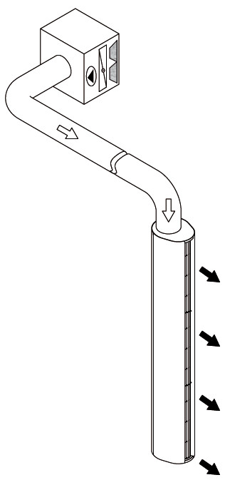 Air curtain with external ventilation block